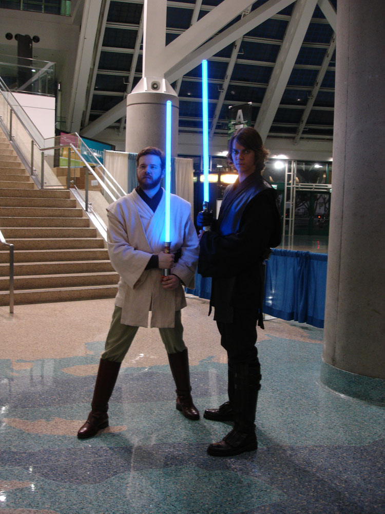 Star Wars Celebration IV - Obi-Wan and Anakin